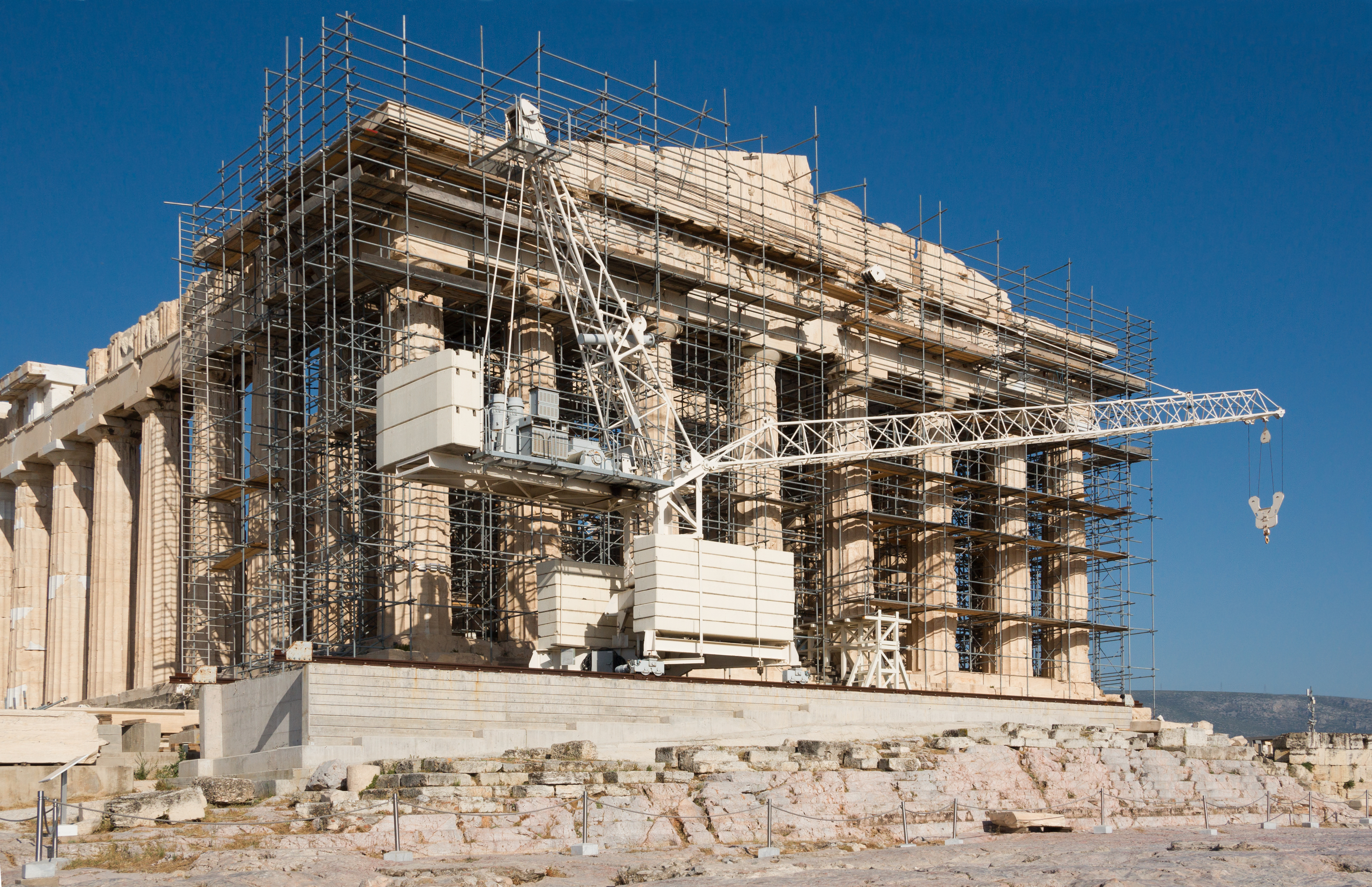 Restoration work at the western facade of the Parthenon, Acropolis, Athens, Greece.